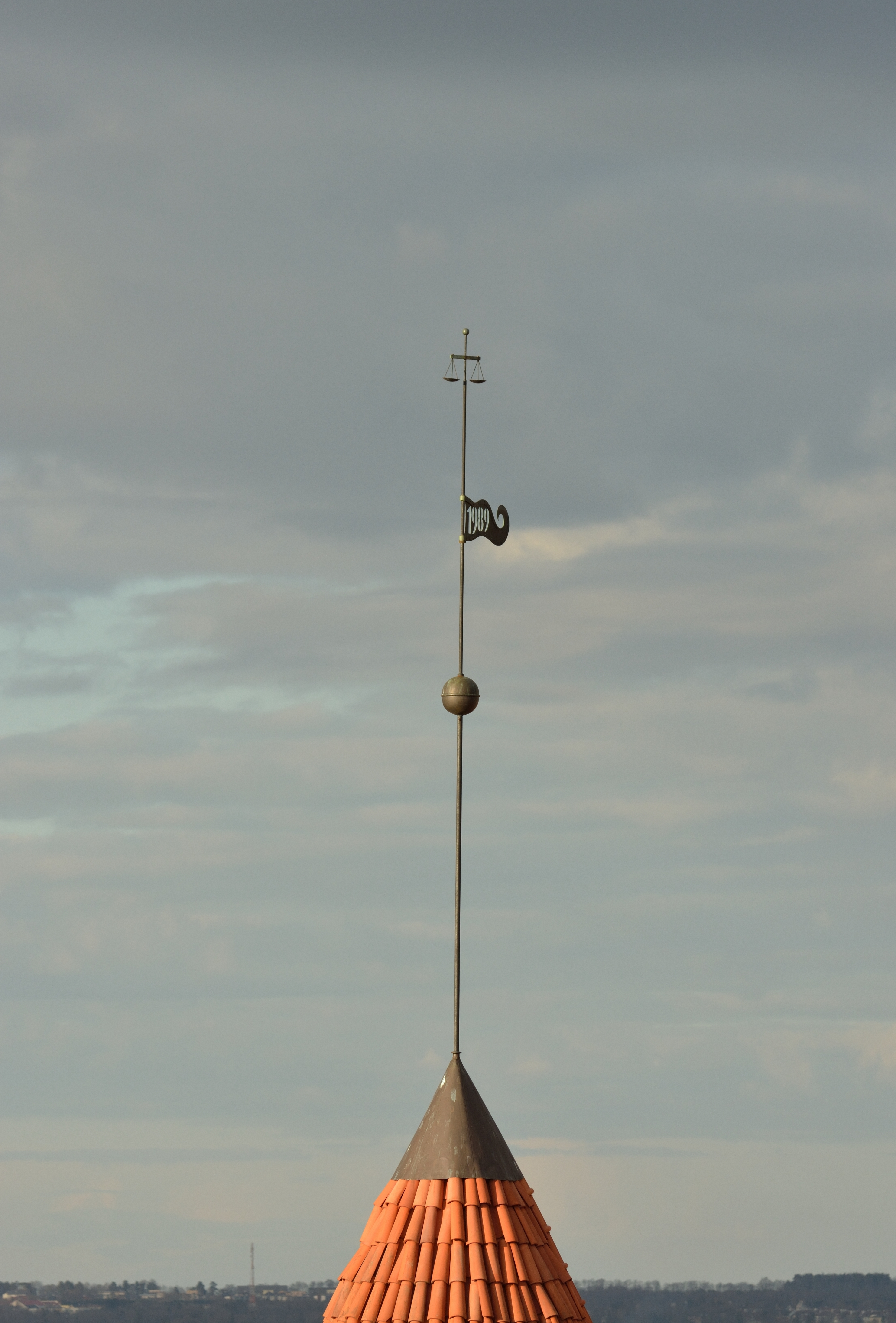 Weather vane of Nun's Tower